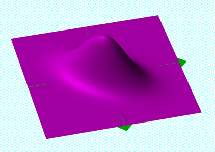 This displays the probability density function of a 2-dimensional Gaussian distribution, with correlation parameter = 0.50.